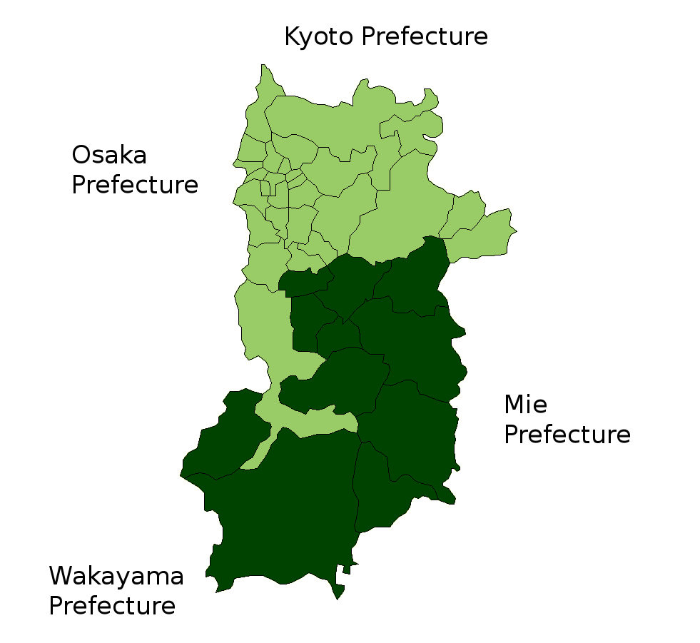 Location Map of Yoshino District in Nara Prefecture, Japan